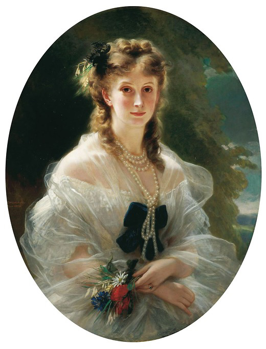 The Duchess of Morny, born Sophie Troubetzkoy, 1863, Musée du Second Empire.